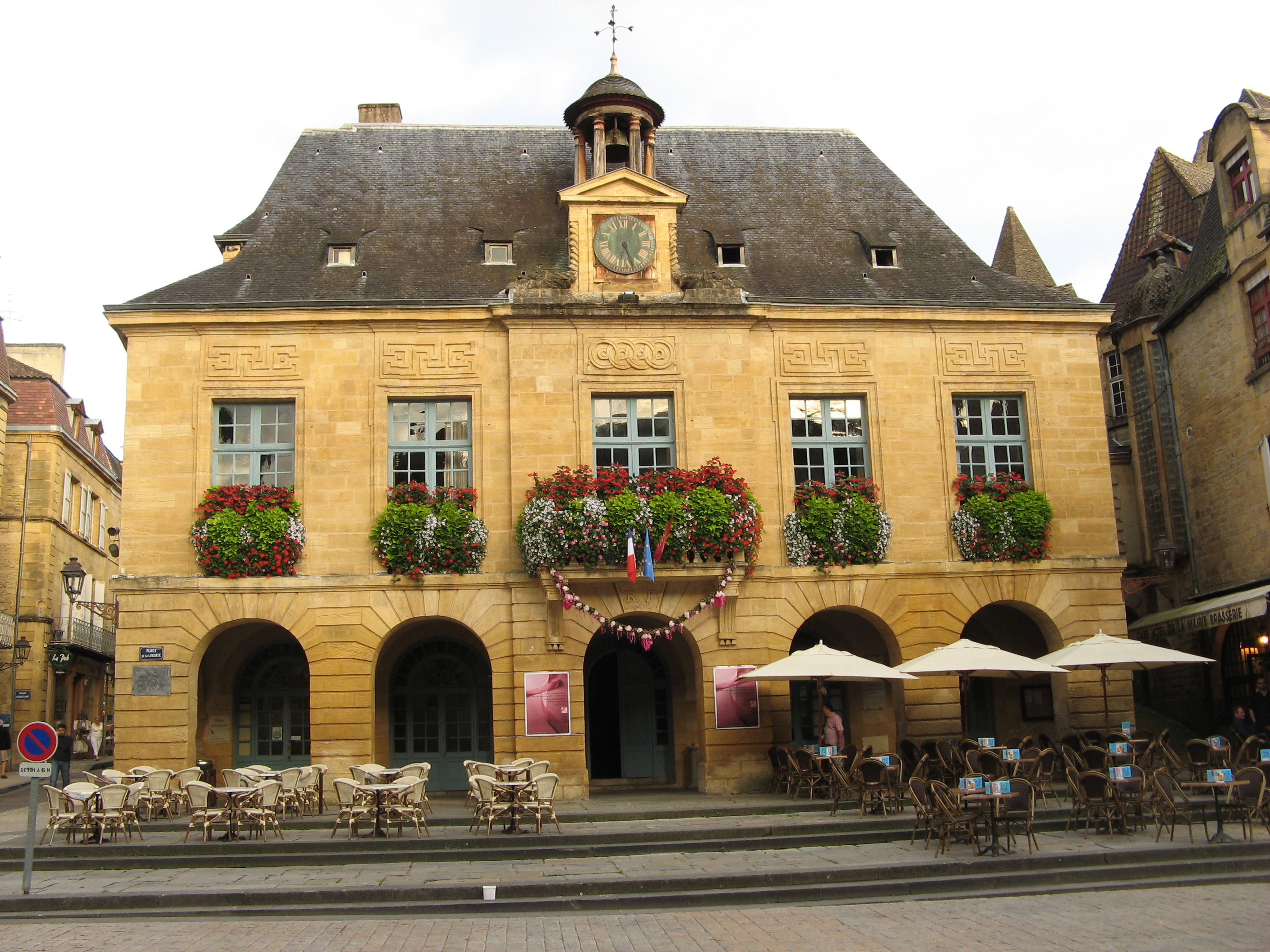 i don't remember where this picture was taken